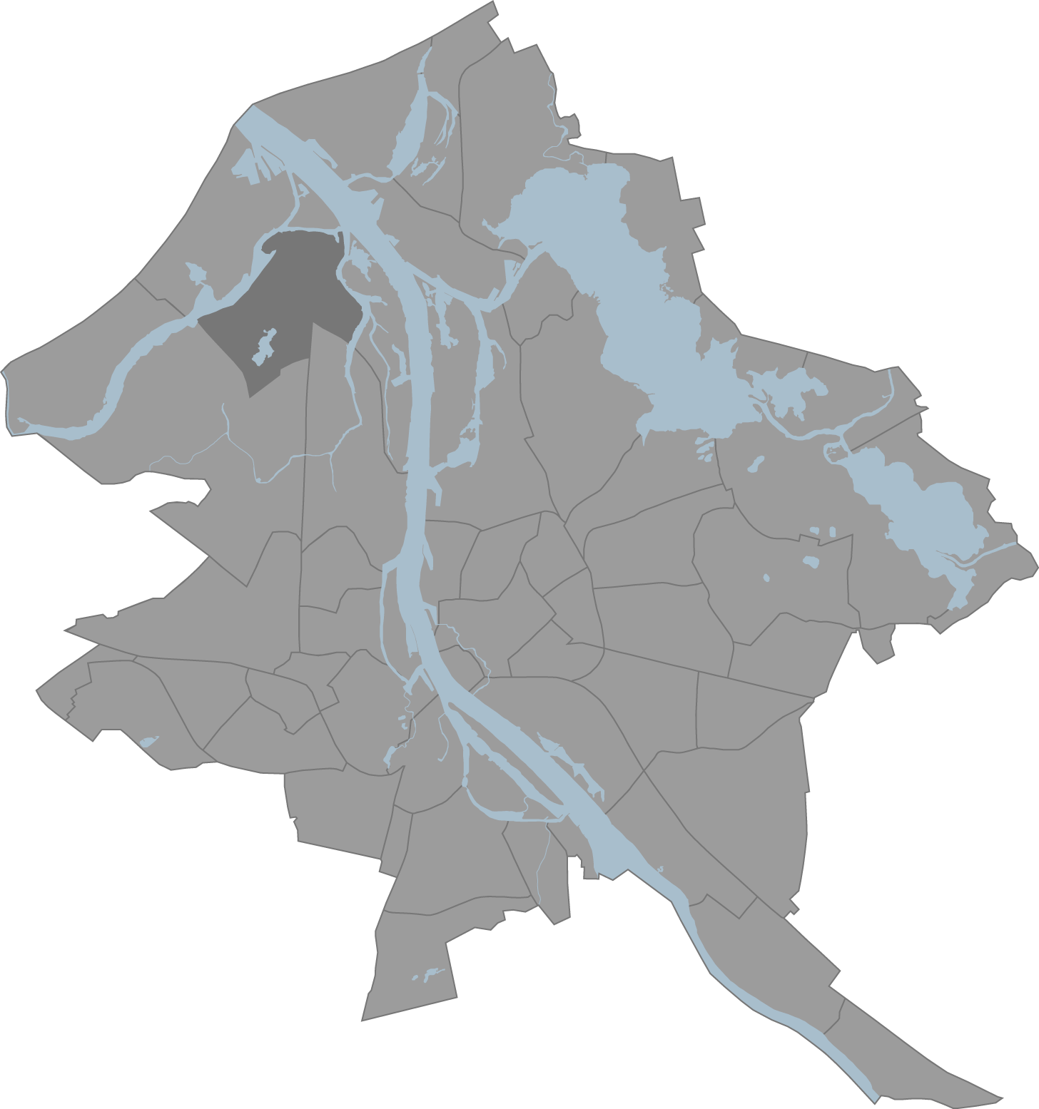 A map of Riga, Latvia with the eponymous commune highlighted